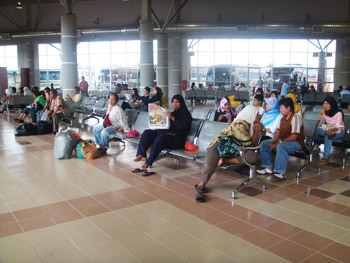 Fully airconditioned Klang Sentral Waiting Area with comfortable seats.